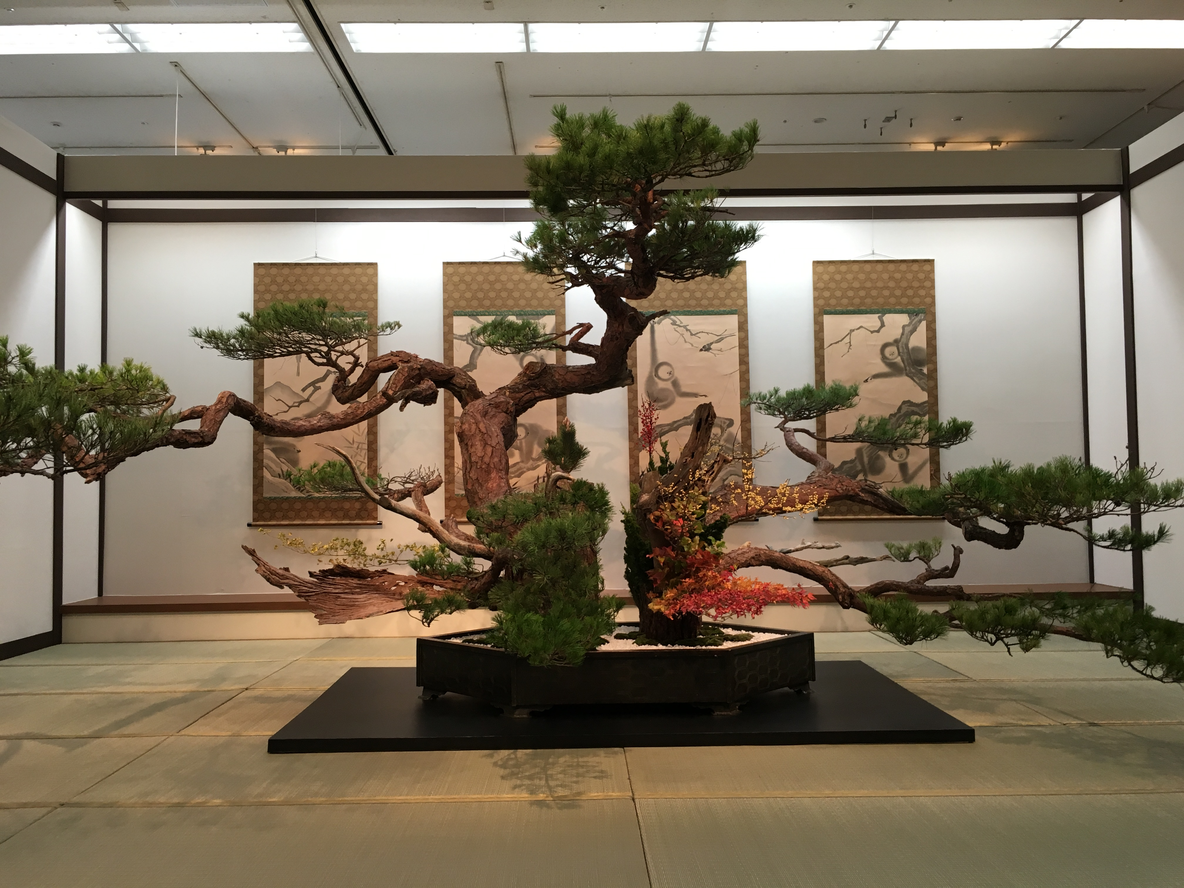 Replica of the large sunamono that was made for Lord Maeda's residence in the 16th century. This example was used for the 2017 movie "Flower and Sword".